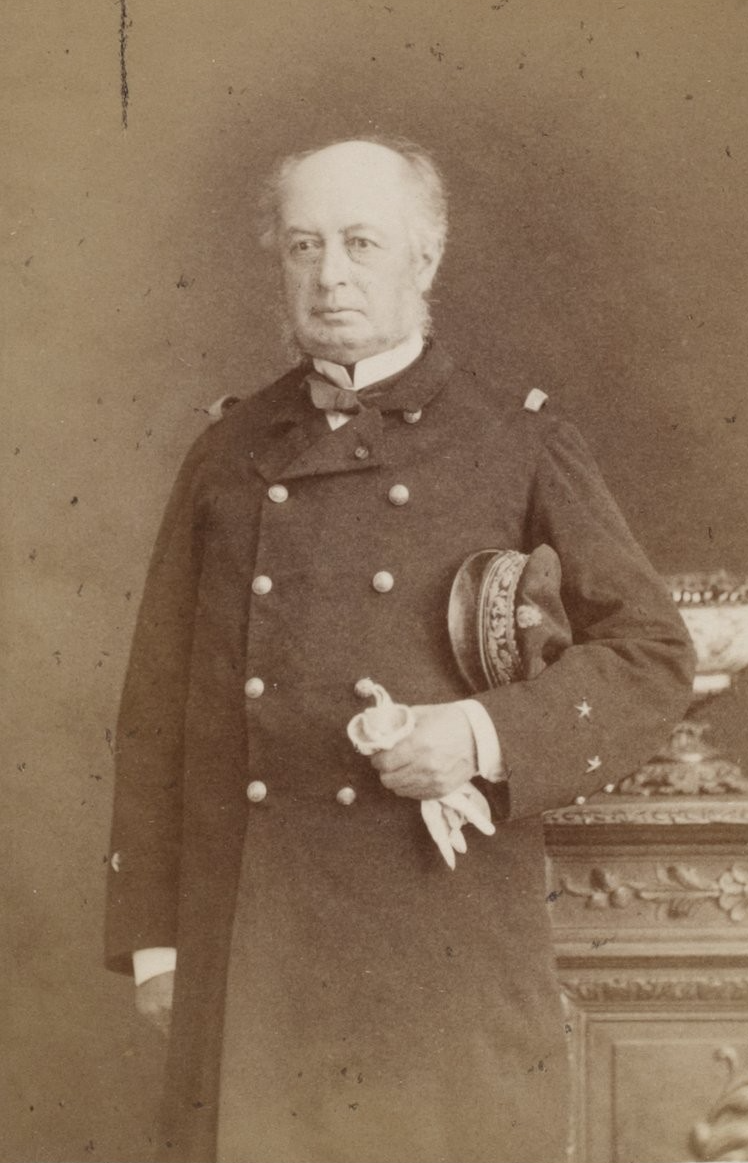 amiral Charles Joseph Dumas-Vence ( 1823-1904)